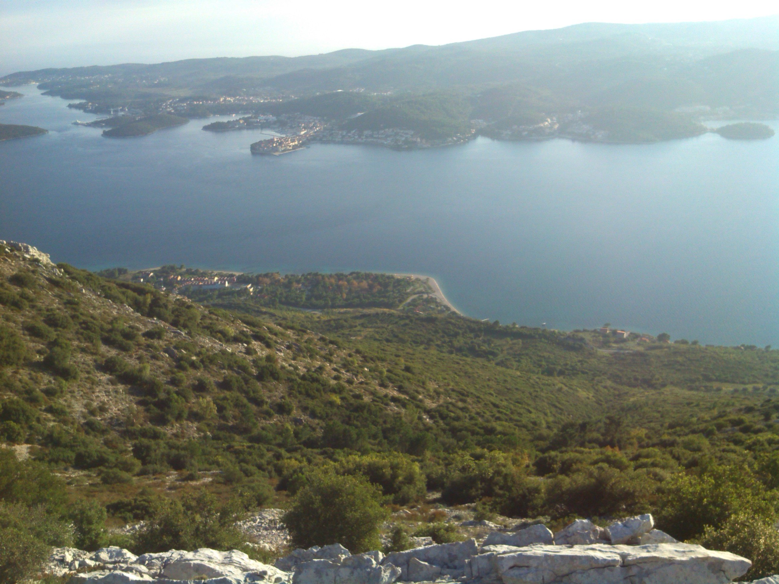 Korčula and Perna